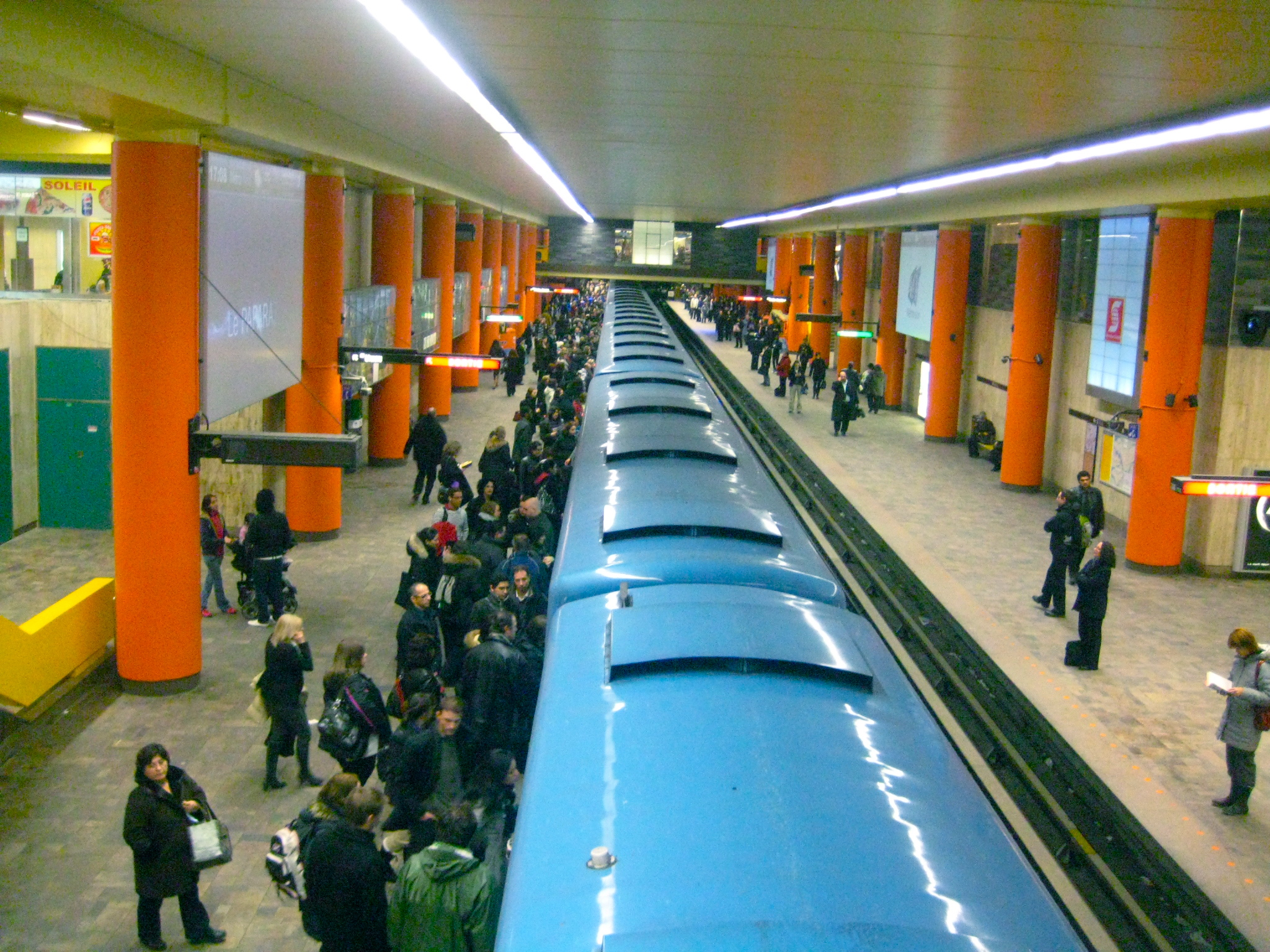 McGill Metro station platform